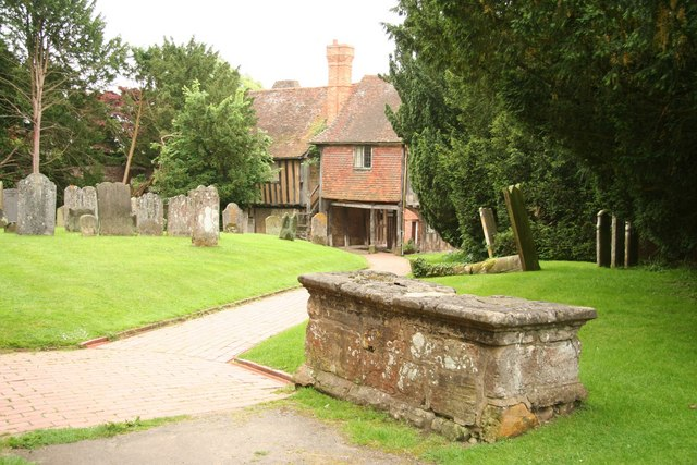 St.John the Baptist's churchyard View by the south porch towards Leicester Square